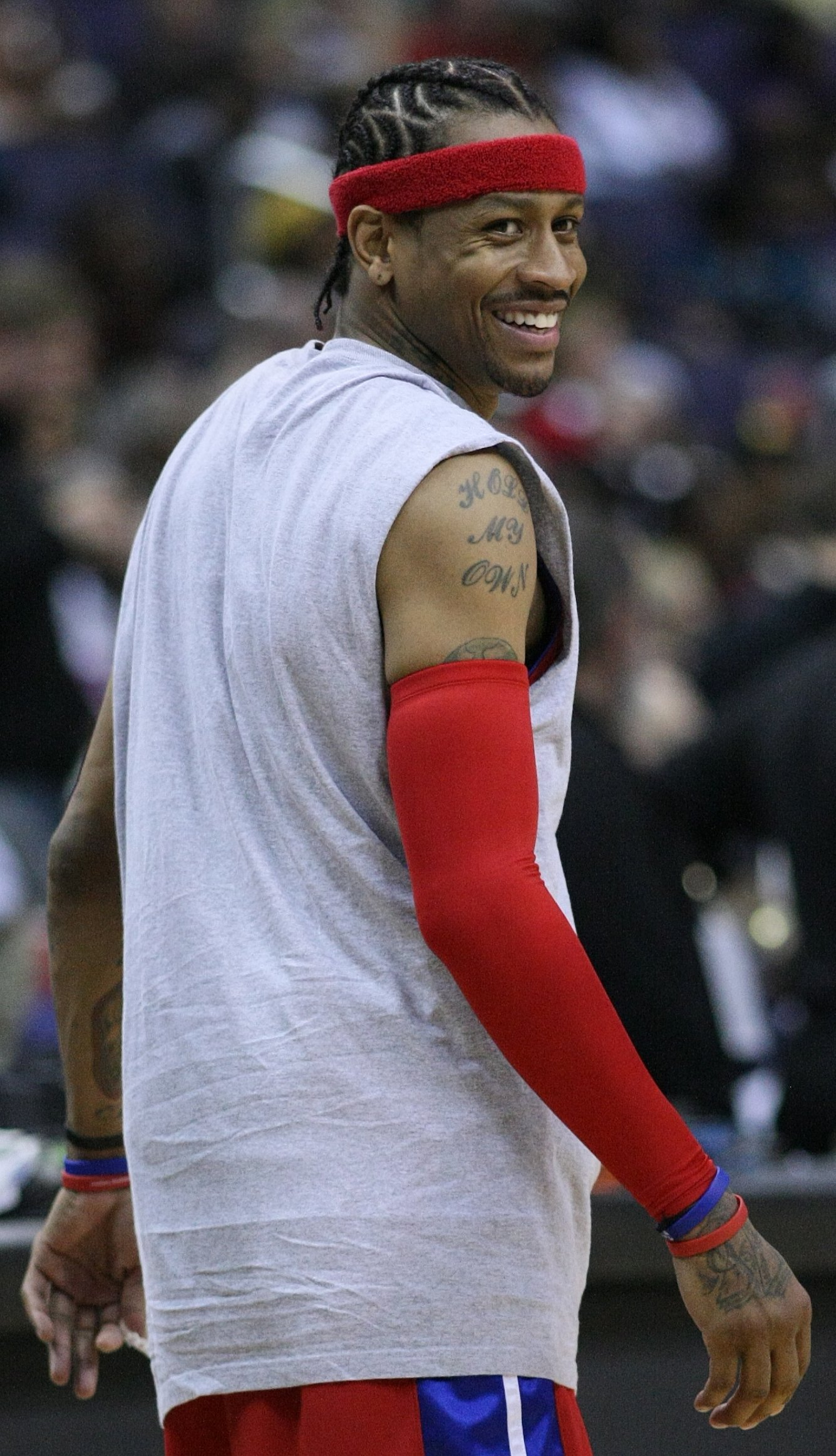 Allen Iverson during the 2008-09 season as a member of the Detroit Pistons